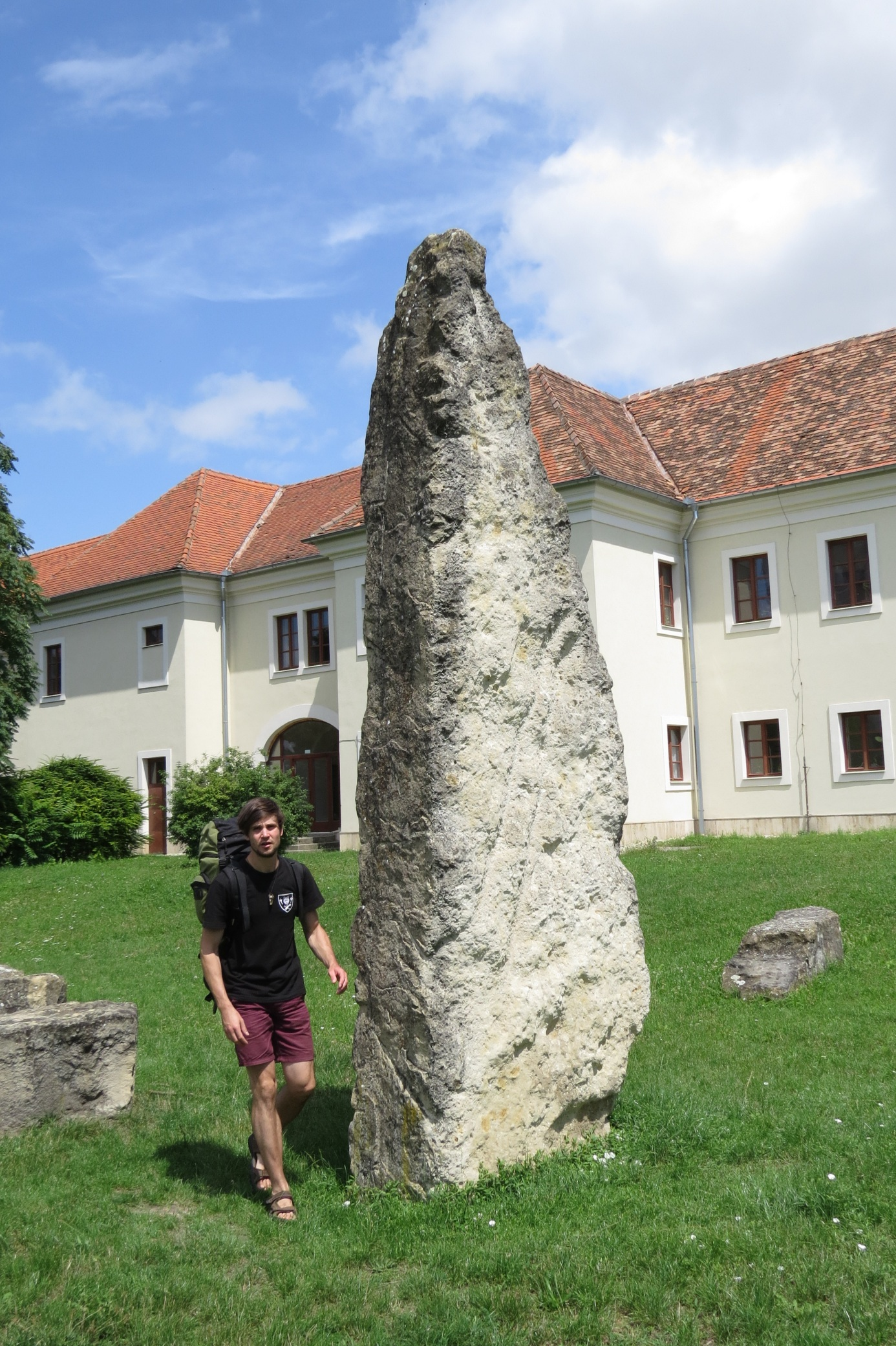 Holic's sanctuary2